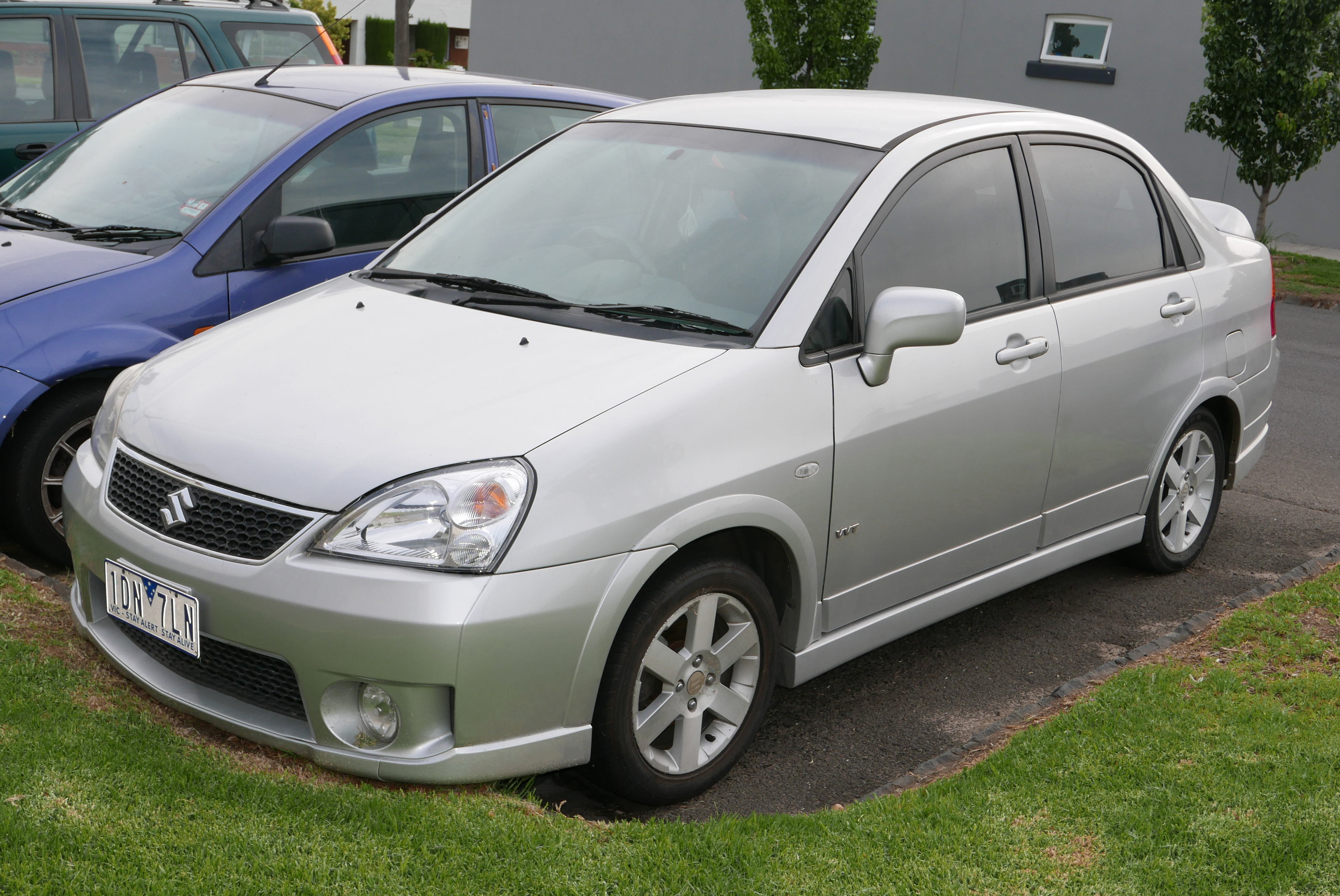 2004–2007 Suzuki Liana (RH418 Type 5) sedan. Photographed in Ascot Vale, Victoria, Australia.